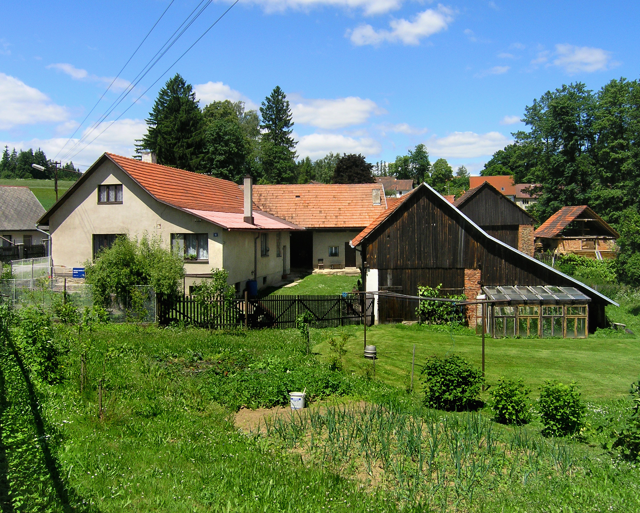 East part of Skoranovice, part of Martinice u Onšova village, Czech Republic